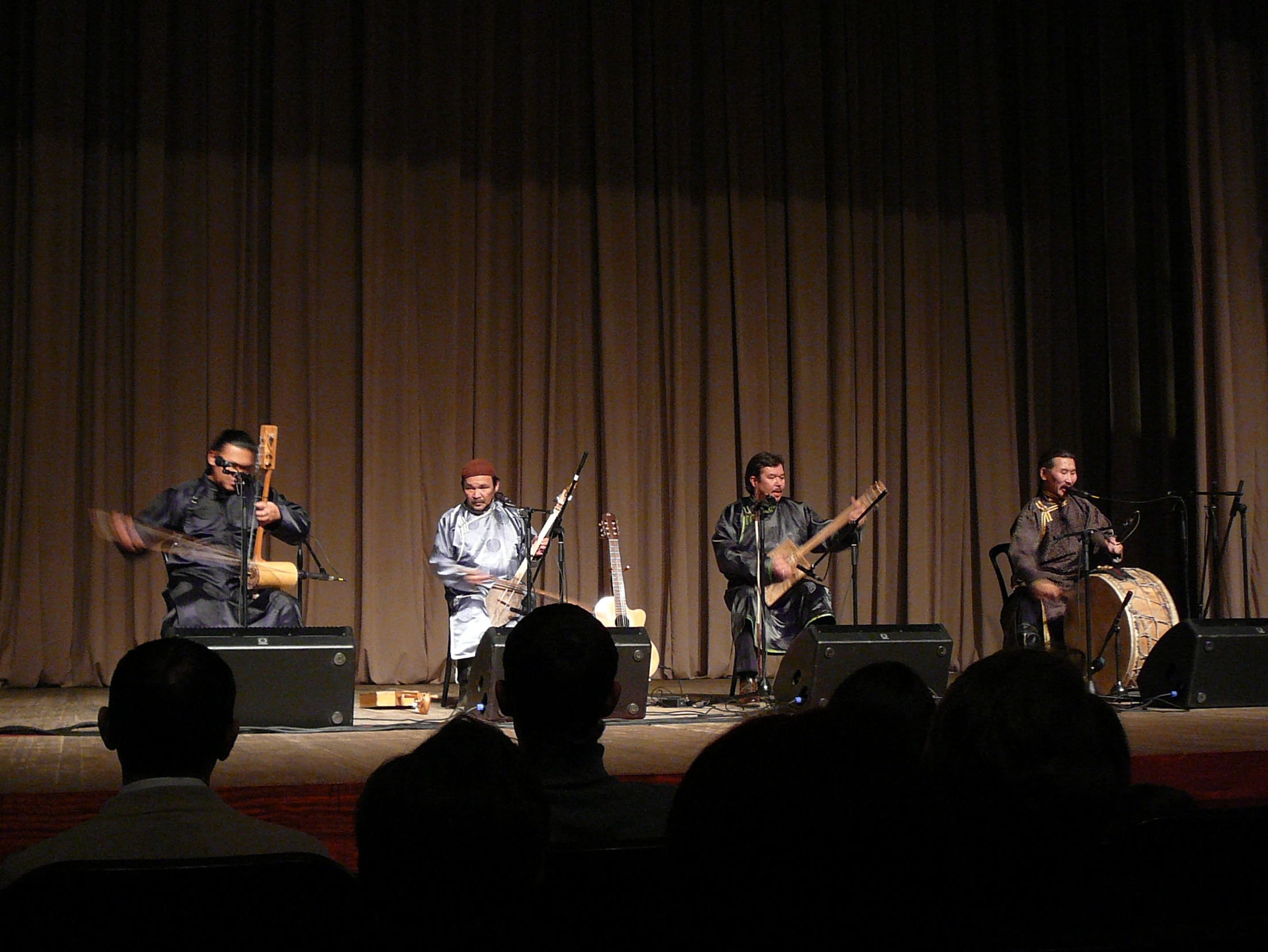 Members of the musical group "Huun-Huur-Tu" of Tuva, Russia: Radik Tyulyush, Kaigal-ool Khovalyg, Sayan Bapa, Aleksey Saryglar.